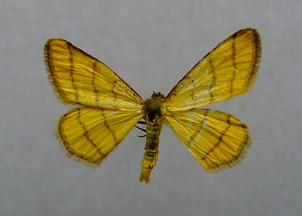 Idaea aureolaria, Oberbergen, Kaiserstuhl, Germany